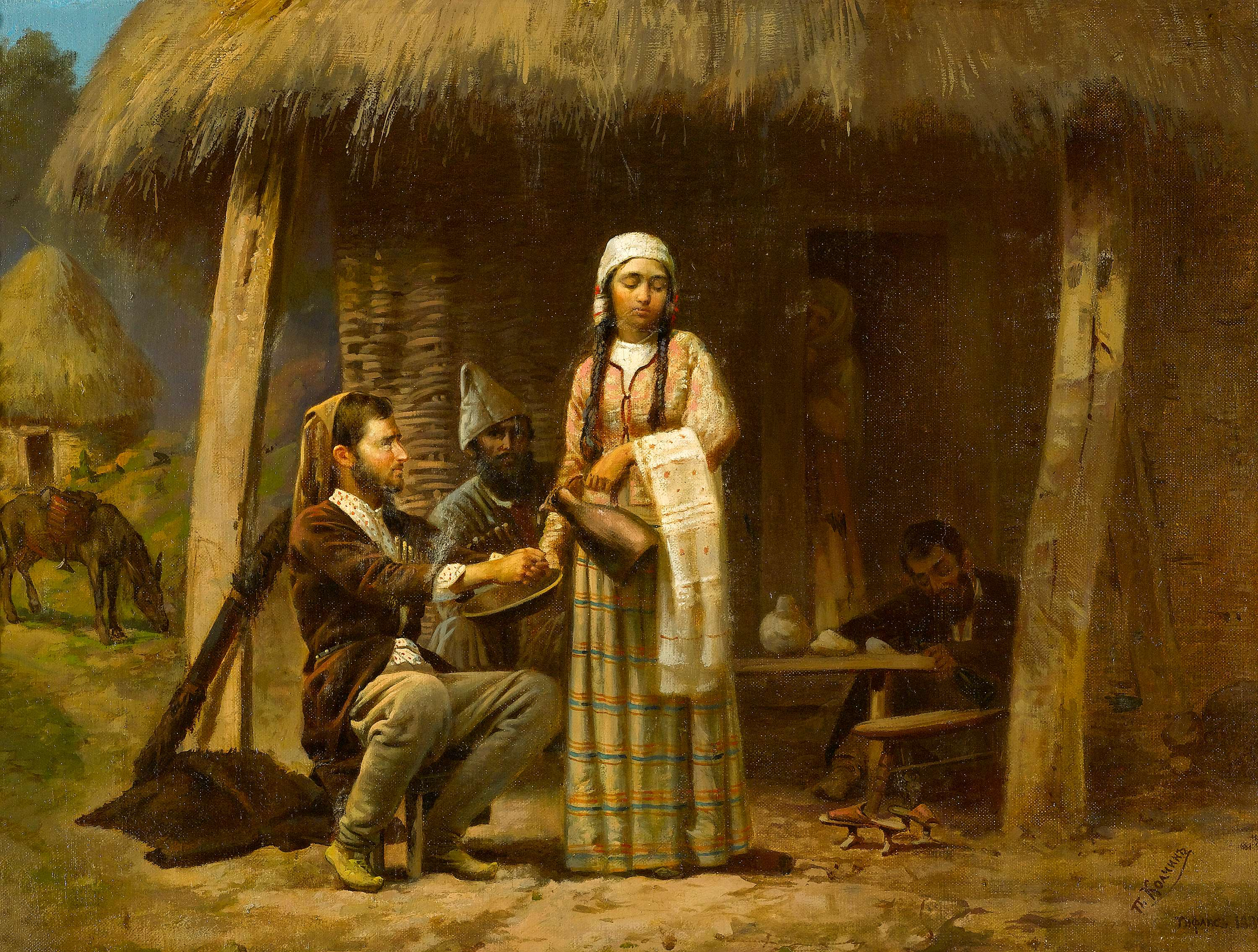 Kolchin P. P. Noble Intentions. Tbilisi. 1880. Oil on canvas, 37.5 х 50 cm.